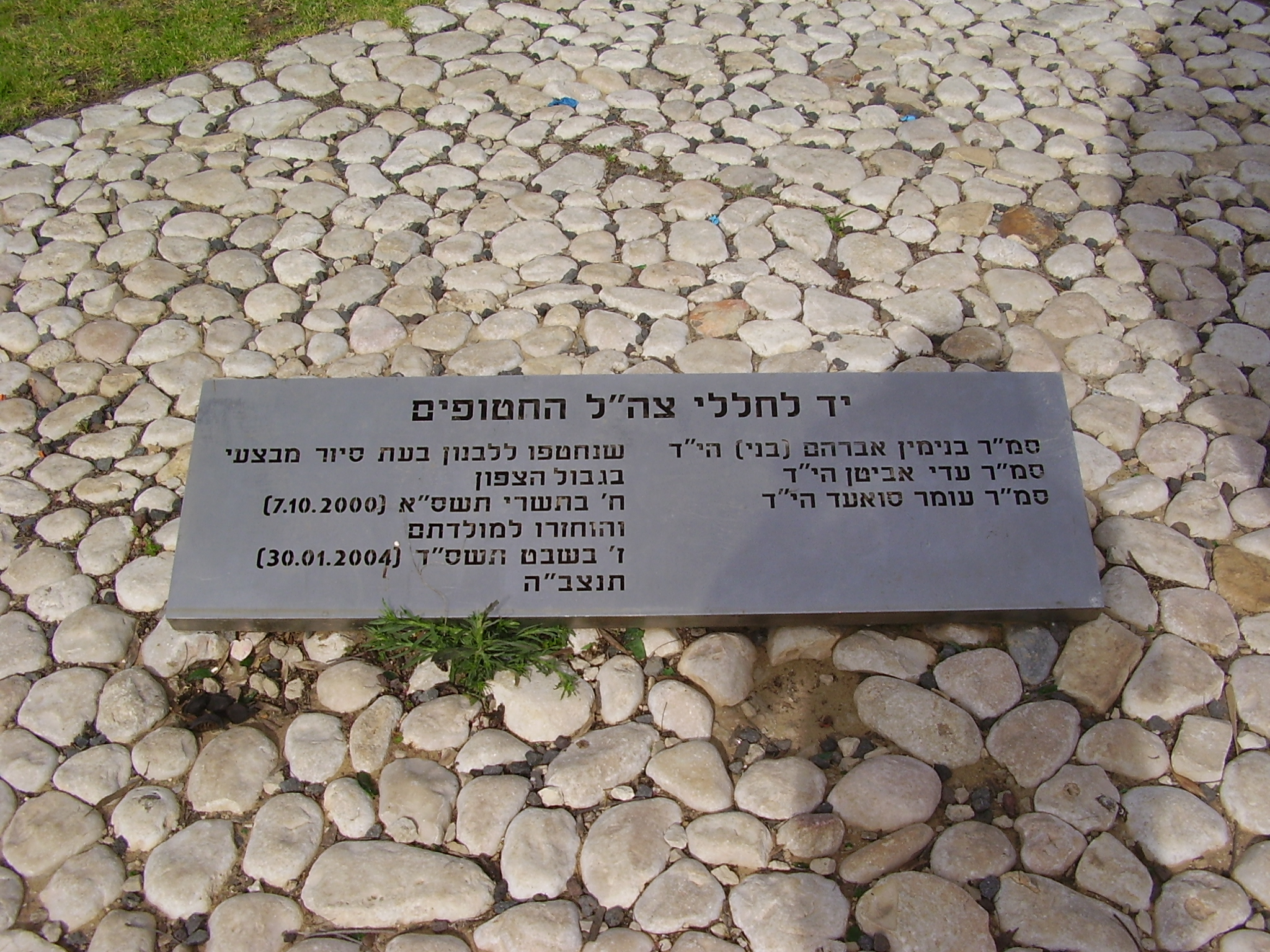 war memorial plaque in petah tikva